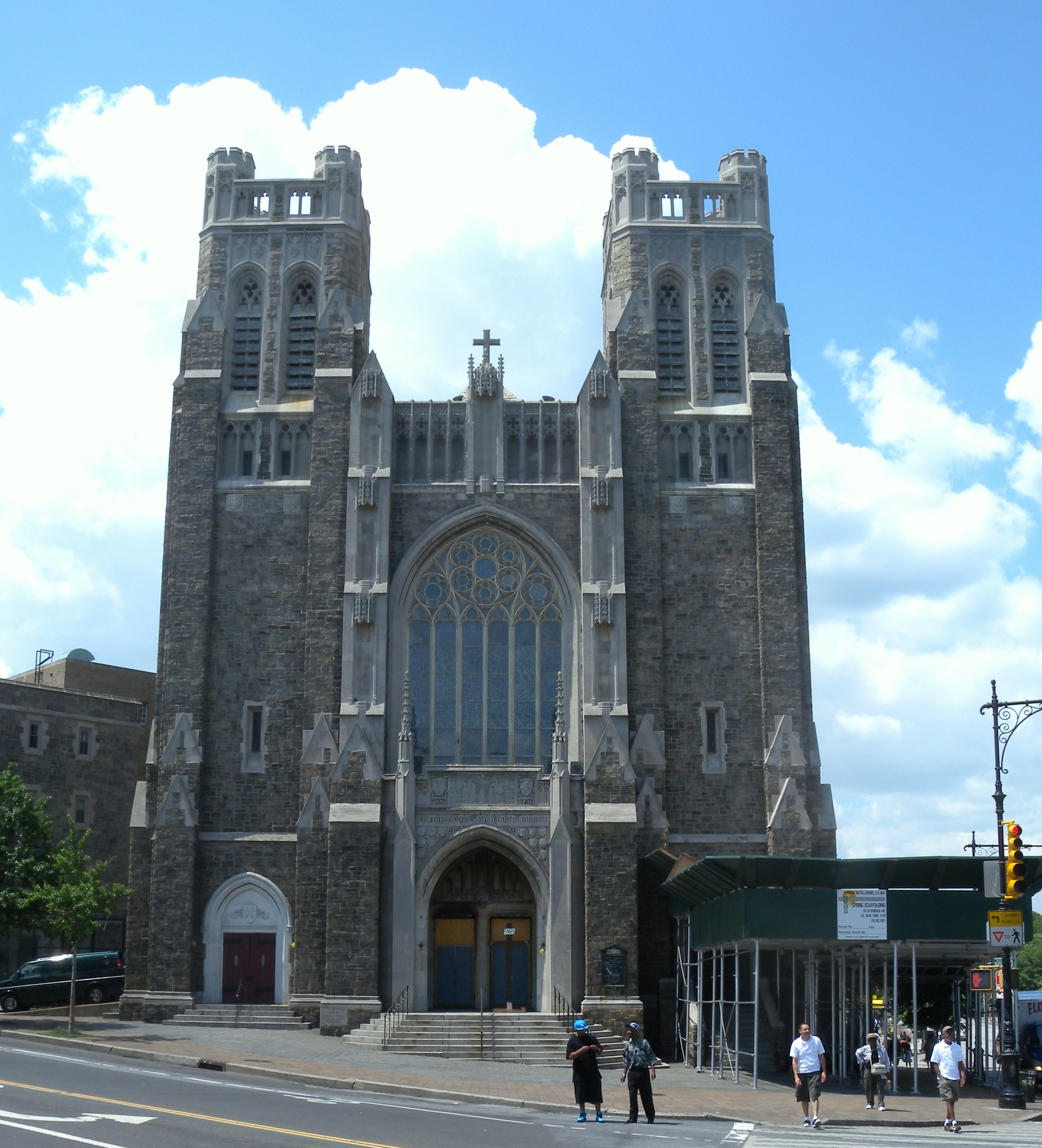 Looking west across University Avenue from Fordham Road at St Nicholas of Tolentine RC Church on a mostly sunny late morning. ZIP 10468.